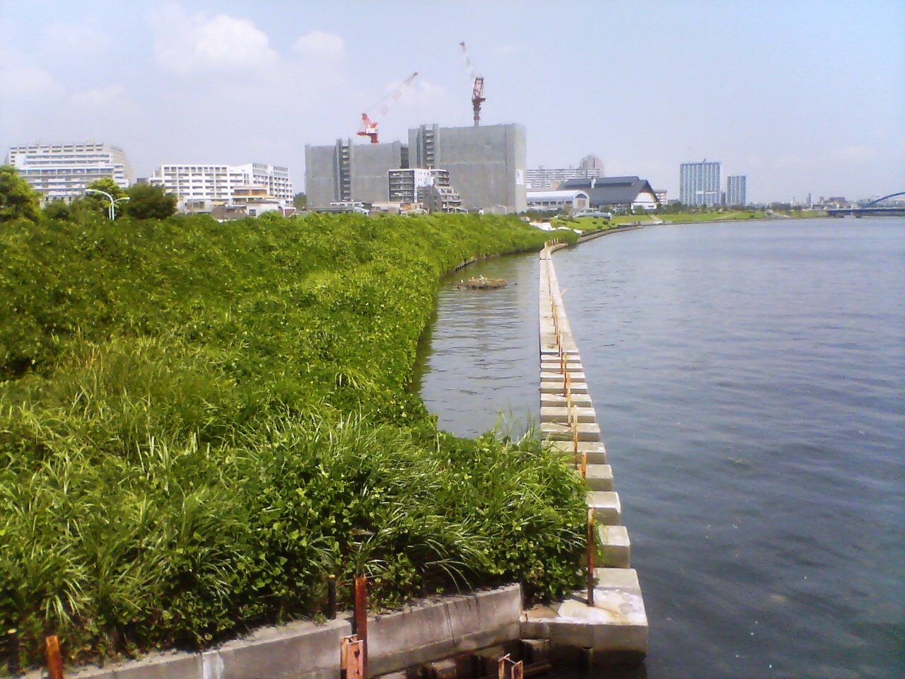 Sumidagawa river in Tokyo,Japan.